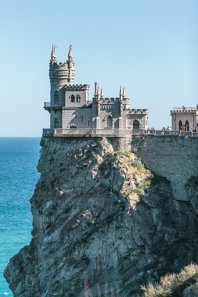 Swallow's Nest near Yalta, Crimea, Ukraine